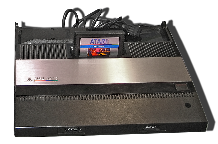 Atari 5200 game console with Pac Man game cartridge in place and controller at back. (Modified version of photo taken at the E3 2005).Atari 5200